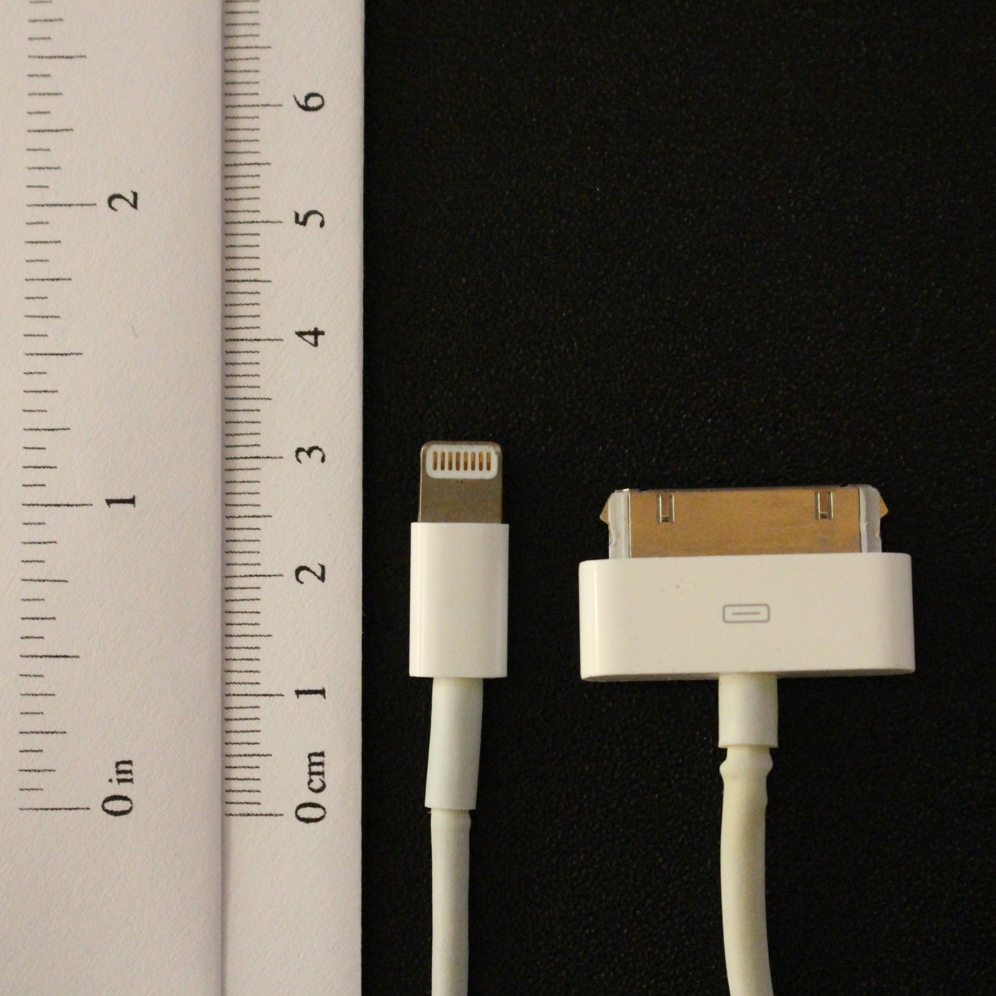 Apple Lightning and 30 pin comparison